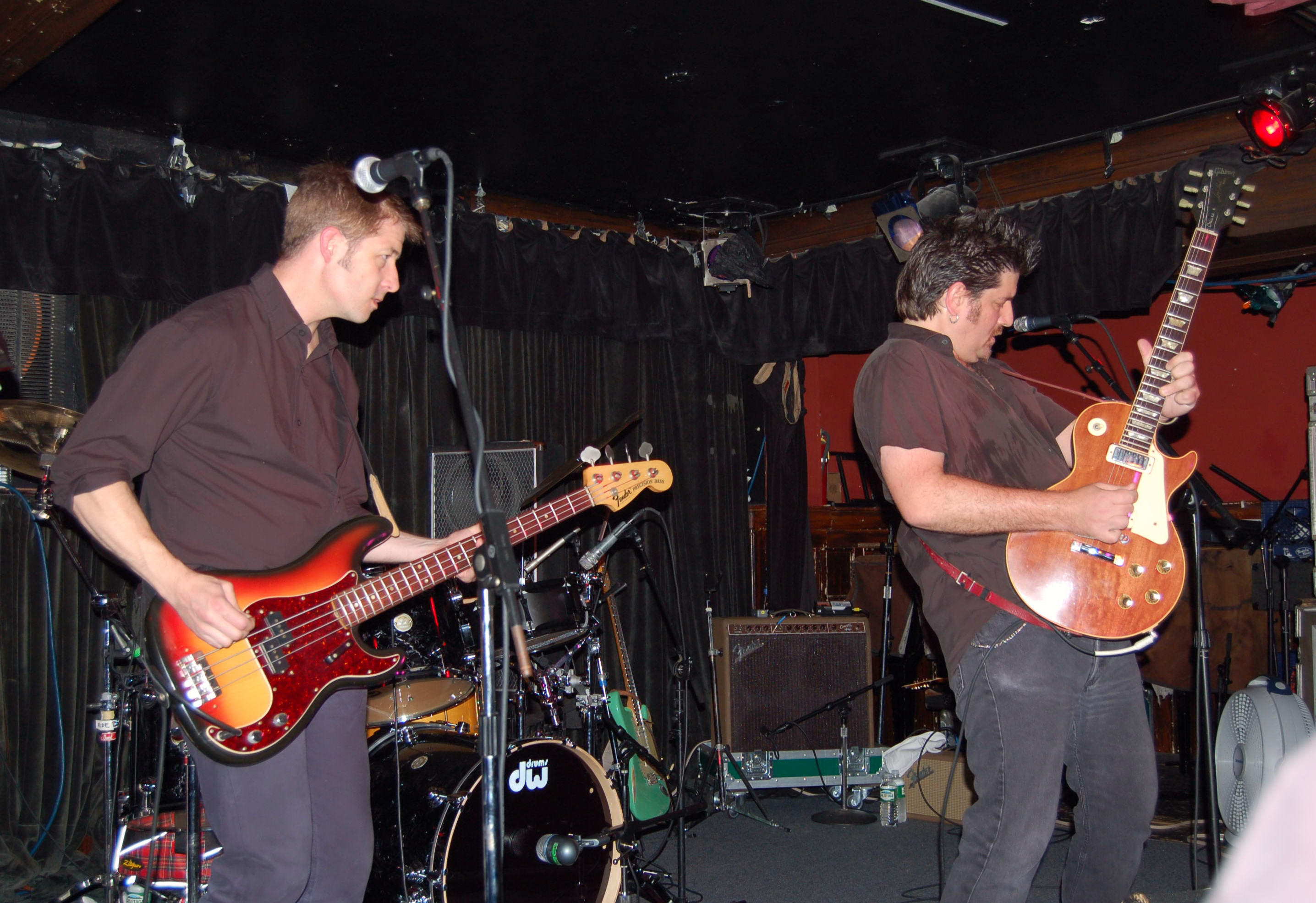 Monks of Doom, featuring David Immergluck of The Counting Crows